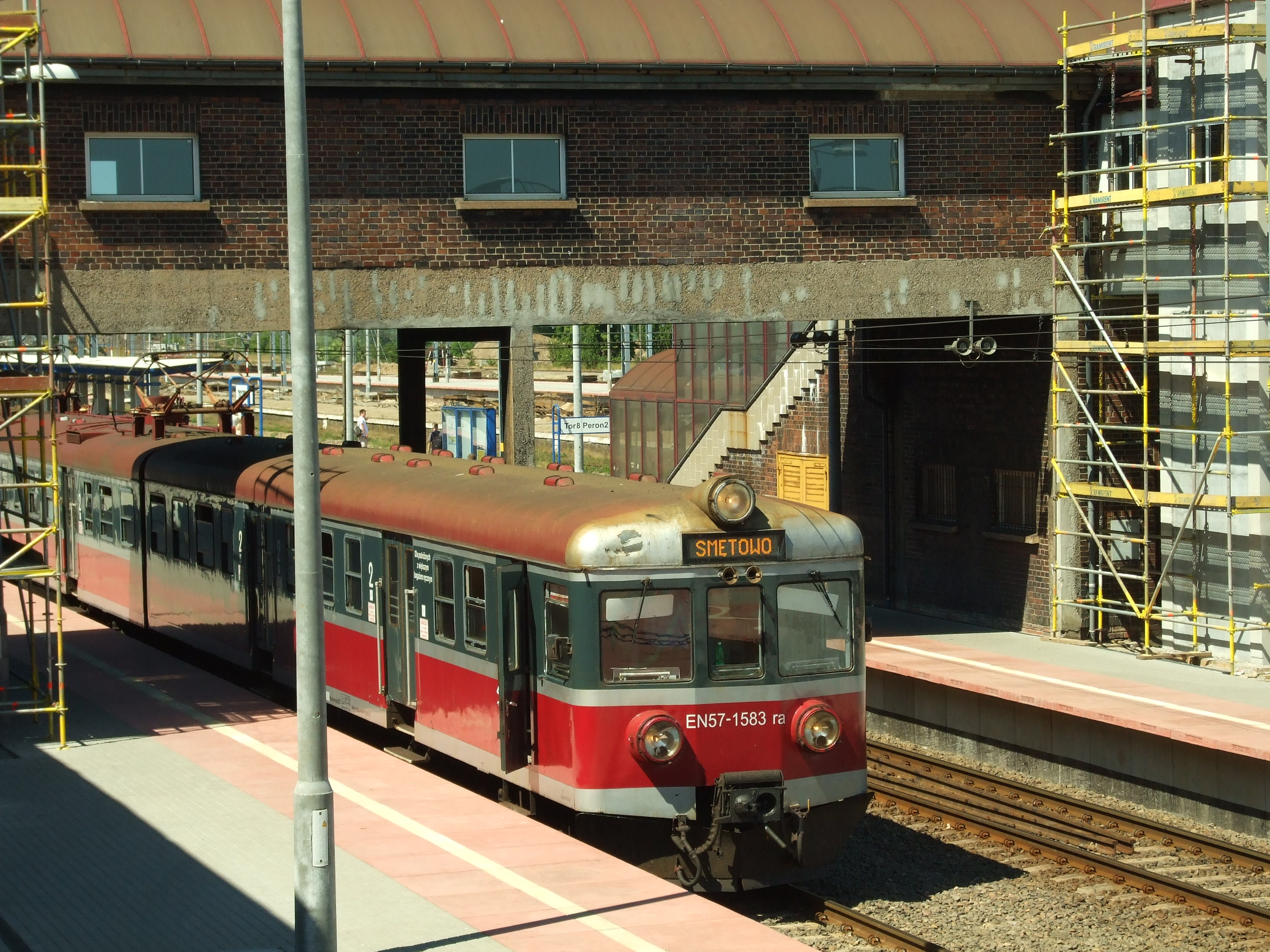 Polish EMU EN 57 waiting for passengers and heading for Smetowo. Tczew main train station, Pomorskie voivodeship, PL